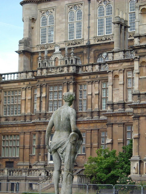 Back of Wollaton Hall Back of Wollaton Hall with statue in frame.